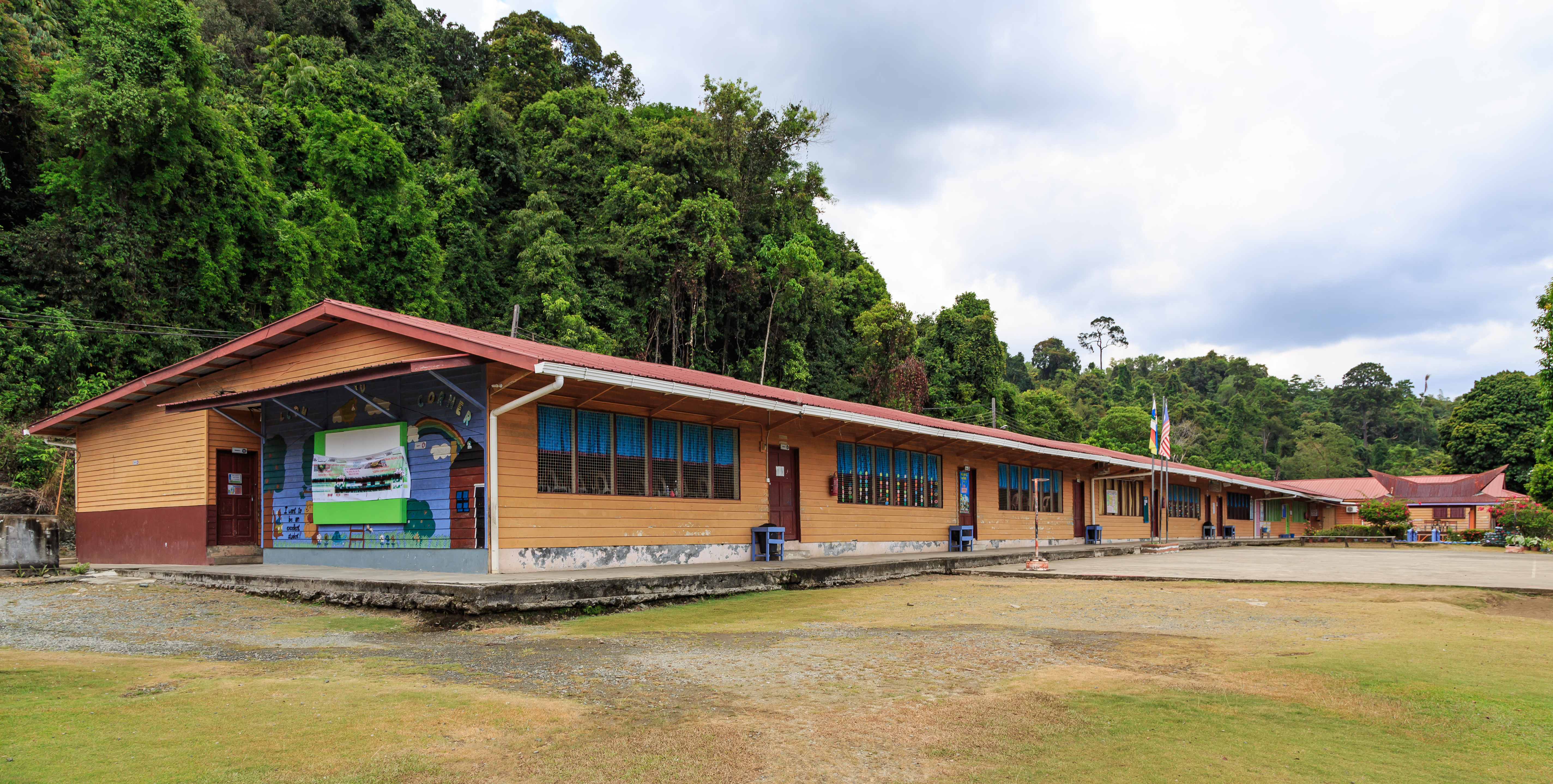 Silam, Sabah: SK Kennedy Bay, the primary school of Silam